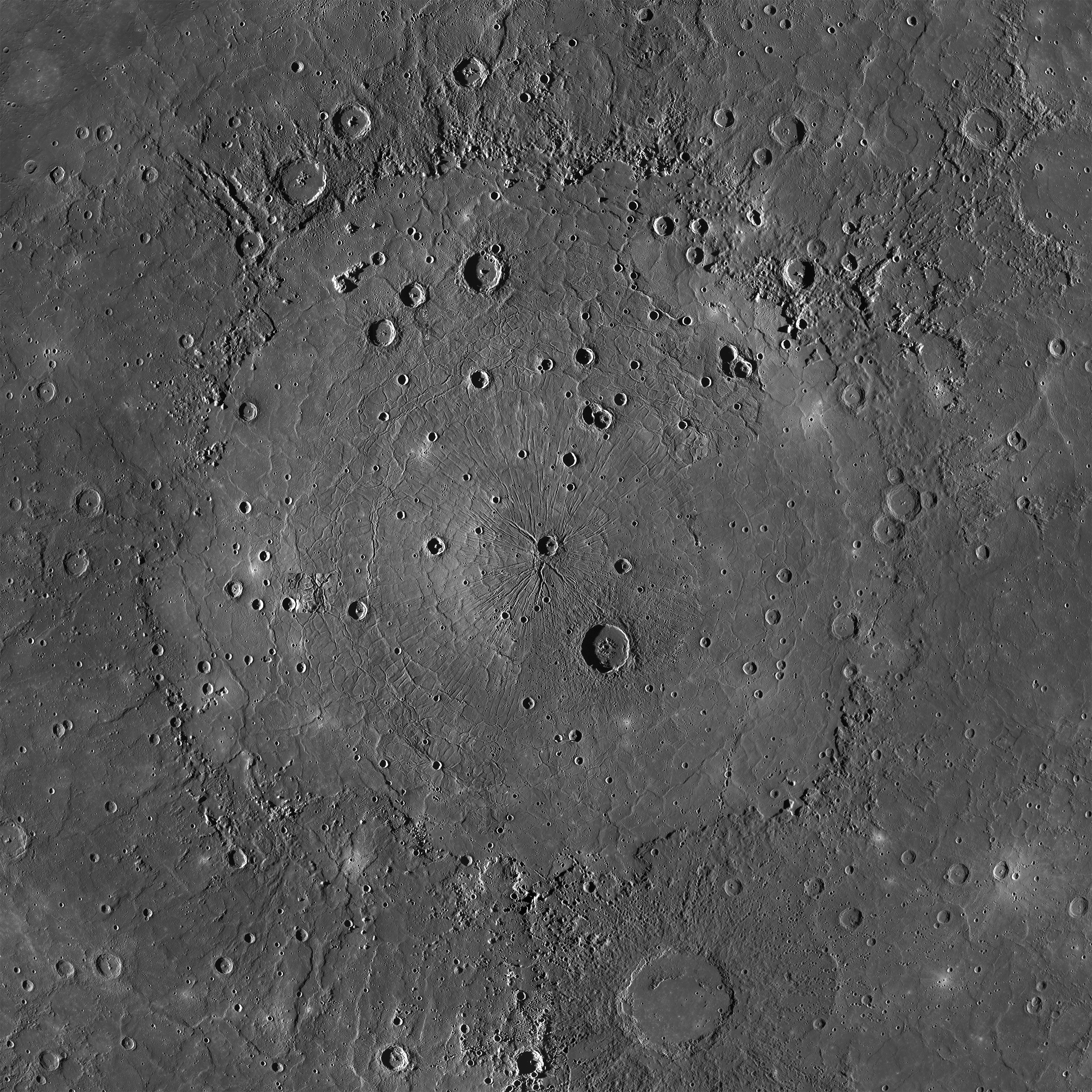 MESSENGER mosaic of the Caloris basin on Mercury.